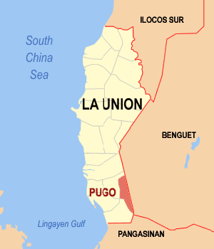 Map of La Union showing the location of Pugo